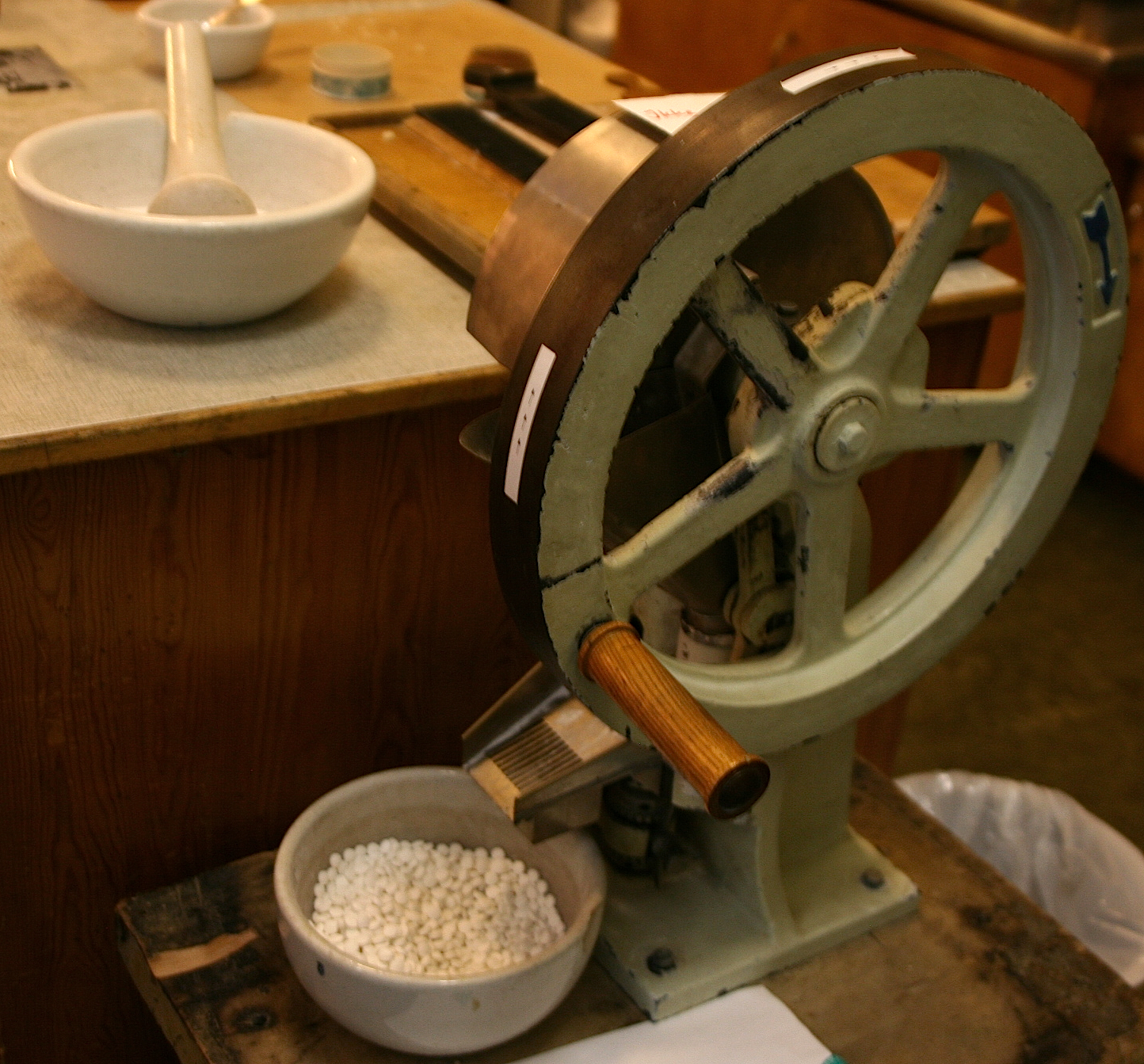 Tablet-making machine